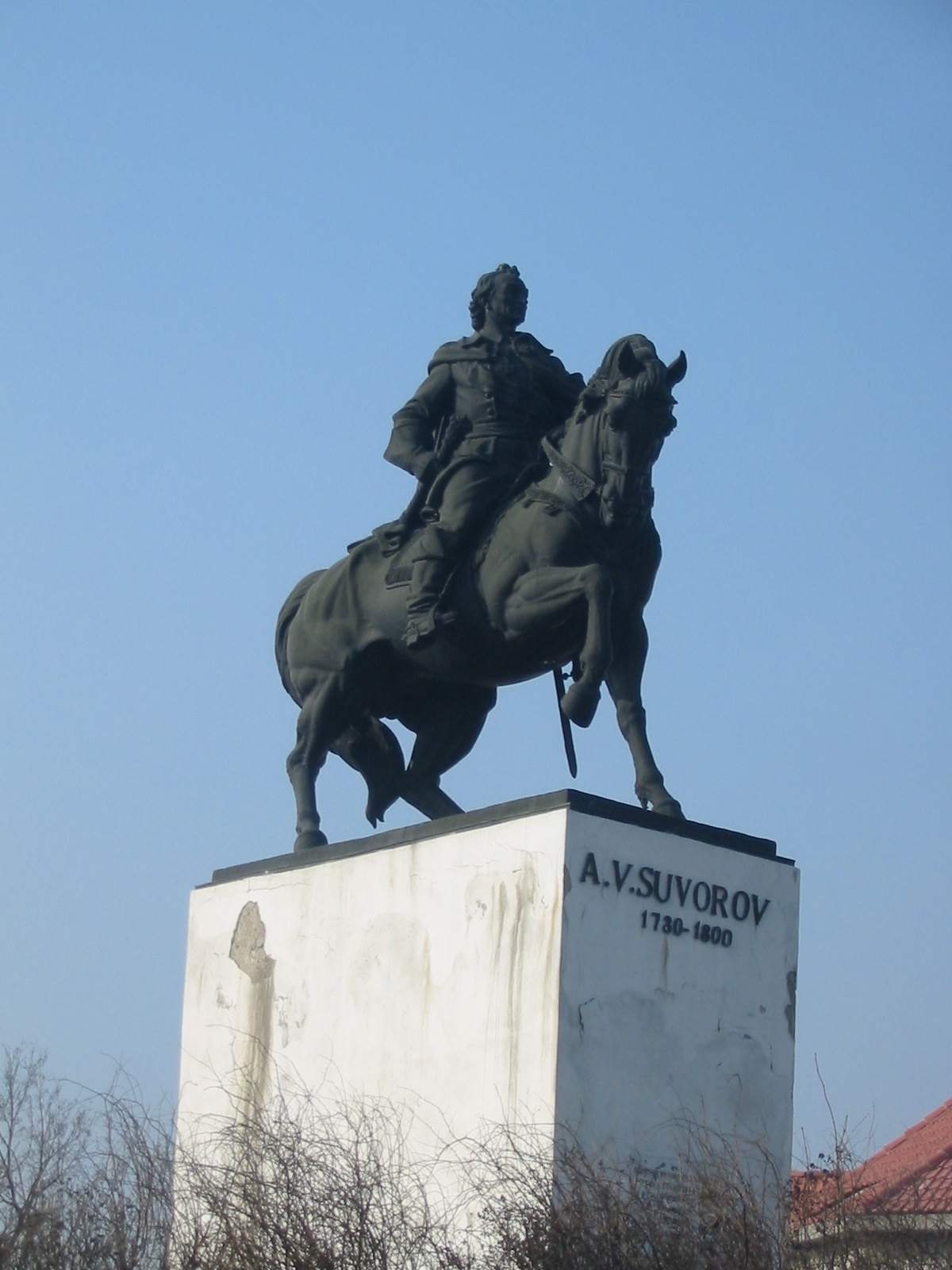 Suvorov monument over the Ramna river.